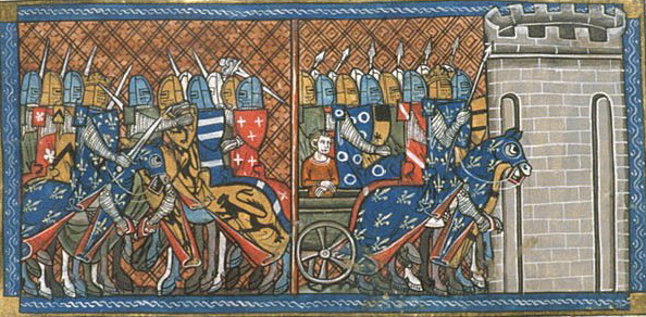 The Battle of Bouvines: Philip II August in combat with Fernando of Flanders (left), the captive Count of Flanders (right). (British Library, Royal 16 G VI f. 384)